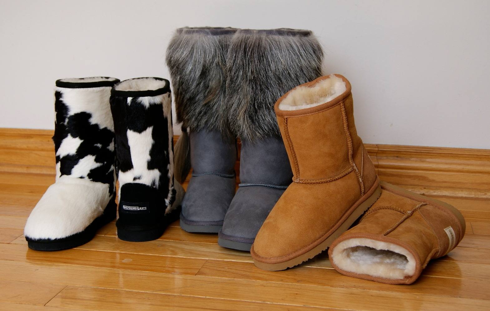 My 1 pair calf- and 2 pair sheepskin boots